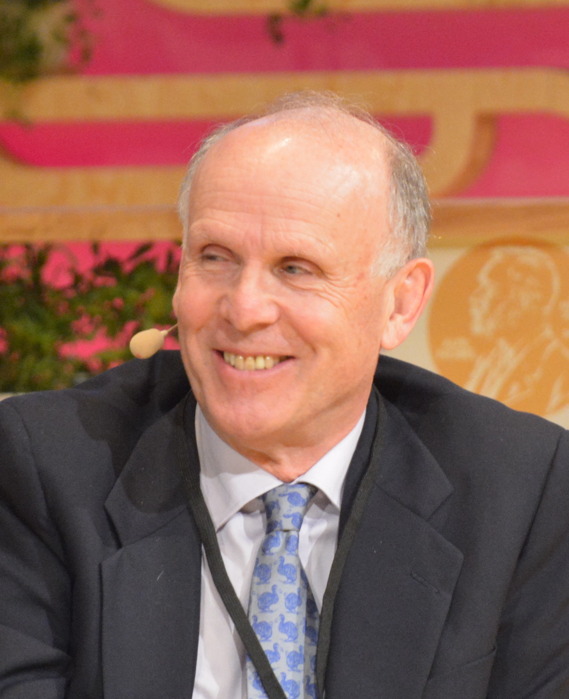 Richard Wrangham at Nobel Week Dialogue 2016 in Stockhom